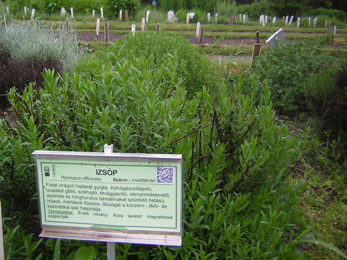 Hyssopus (plant) with QRcode in Botanical Garden Vácrátót, Hungary